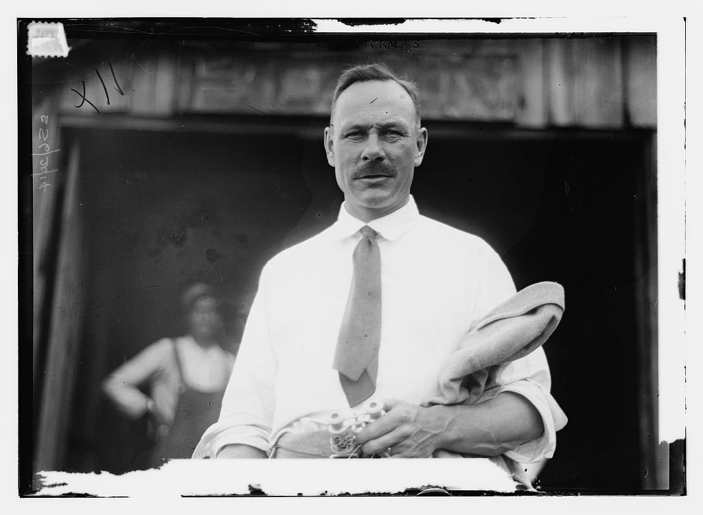 Vivian Nickalls on June 11, 1914 on the Hudson River at Poughkeepsie Bain News Service,, publisher. V. Nickalls [between ca. 1910 and ca. 1915] 1 negative : glass ; 5 x 7 in. or smaller. Notes: Title from unverified data provided by the Bain News Service on the negatives or caption cards. Forms part of: George Grantham Bain Collection (Library of Congress). Format: Glass negatives. Repository: Library of Congress, Prints and Photographs Division, Washington, D.C. 20540 USA, General information about the Bain Collection is available at Persistent URL: Call Number: LC-B2- 3100-10